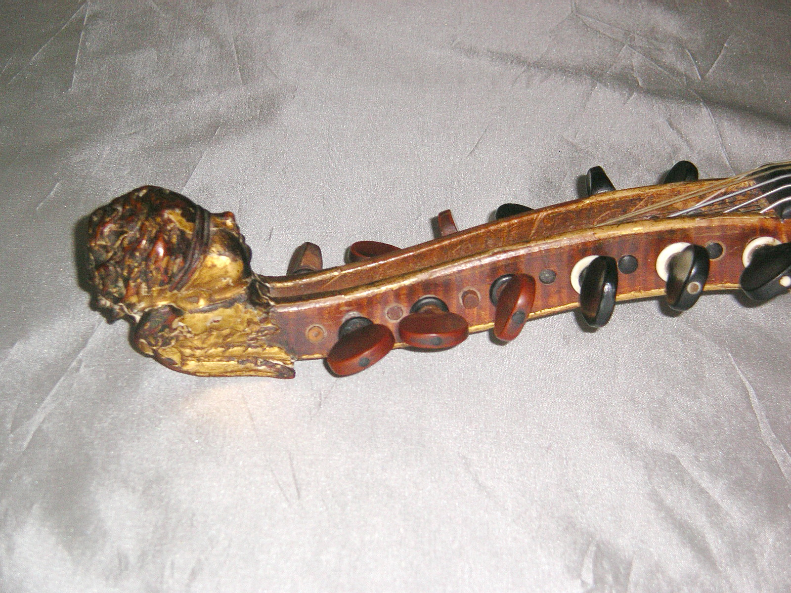 A Viola d'amore by Johann Paul Schorn, built no later than 1715 and no earlier than 1700. Close up showing figurehead representing Blind Love (=amore). Instrument belongs to Anton Steck.